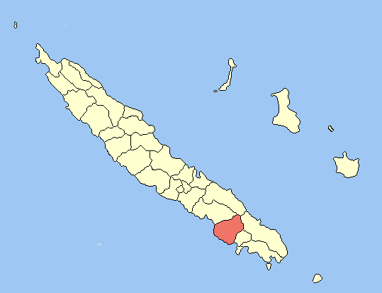 Created map myself.